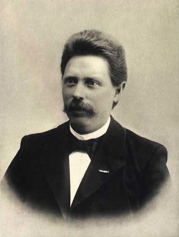 Páll Jakob Briem (1856-1904), Dano-Icelandic politician and civil servant